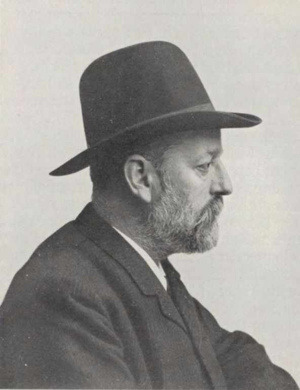 Adolf Le Comte